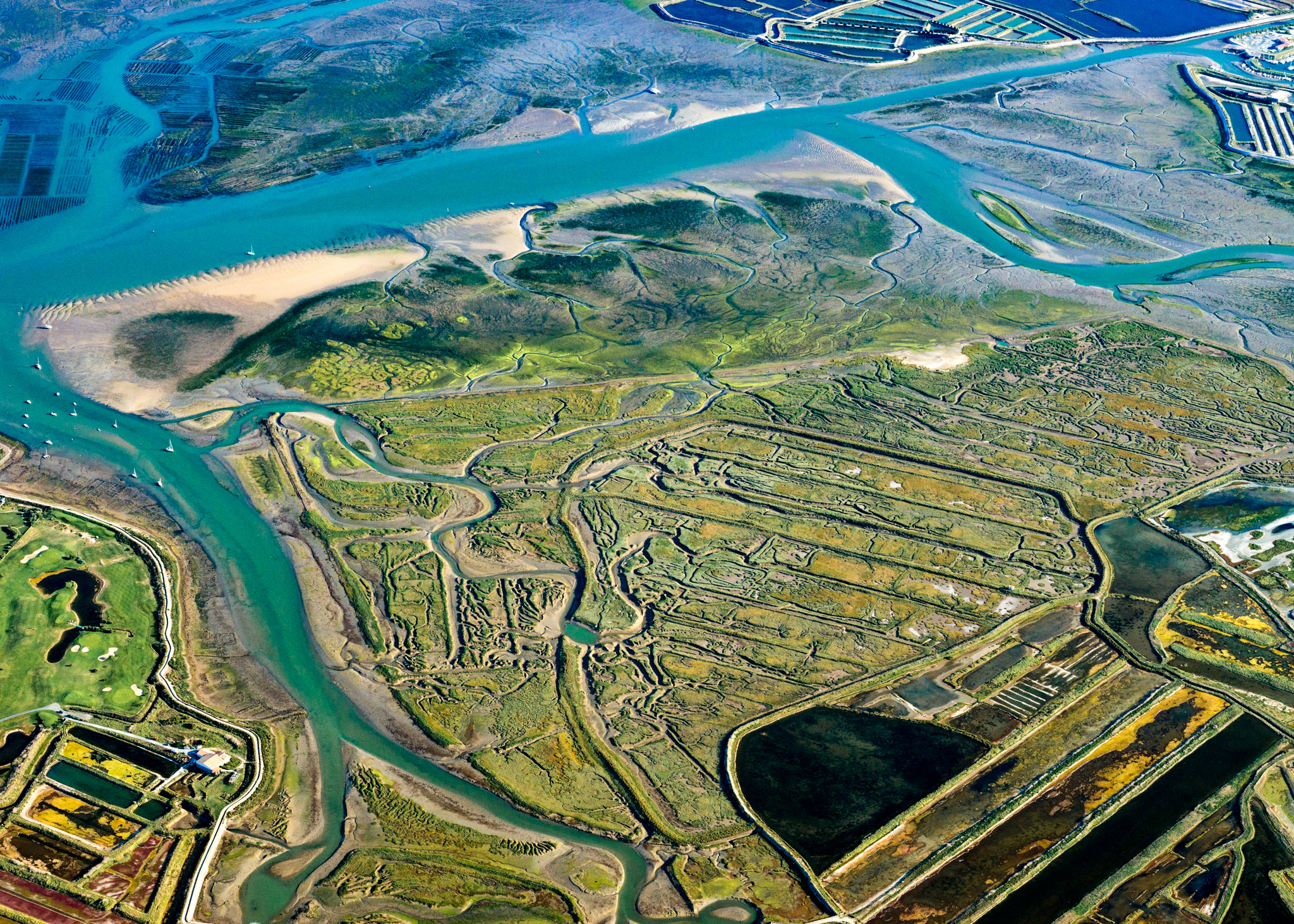 Réserve naturelle Lilleau des Niges, île de Ré, France